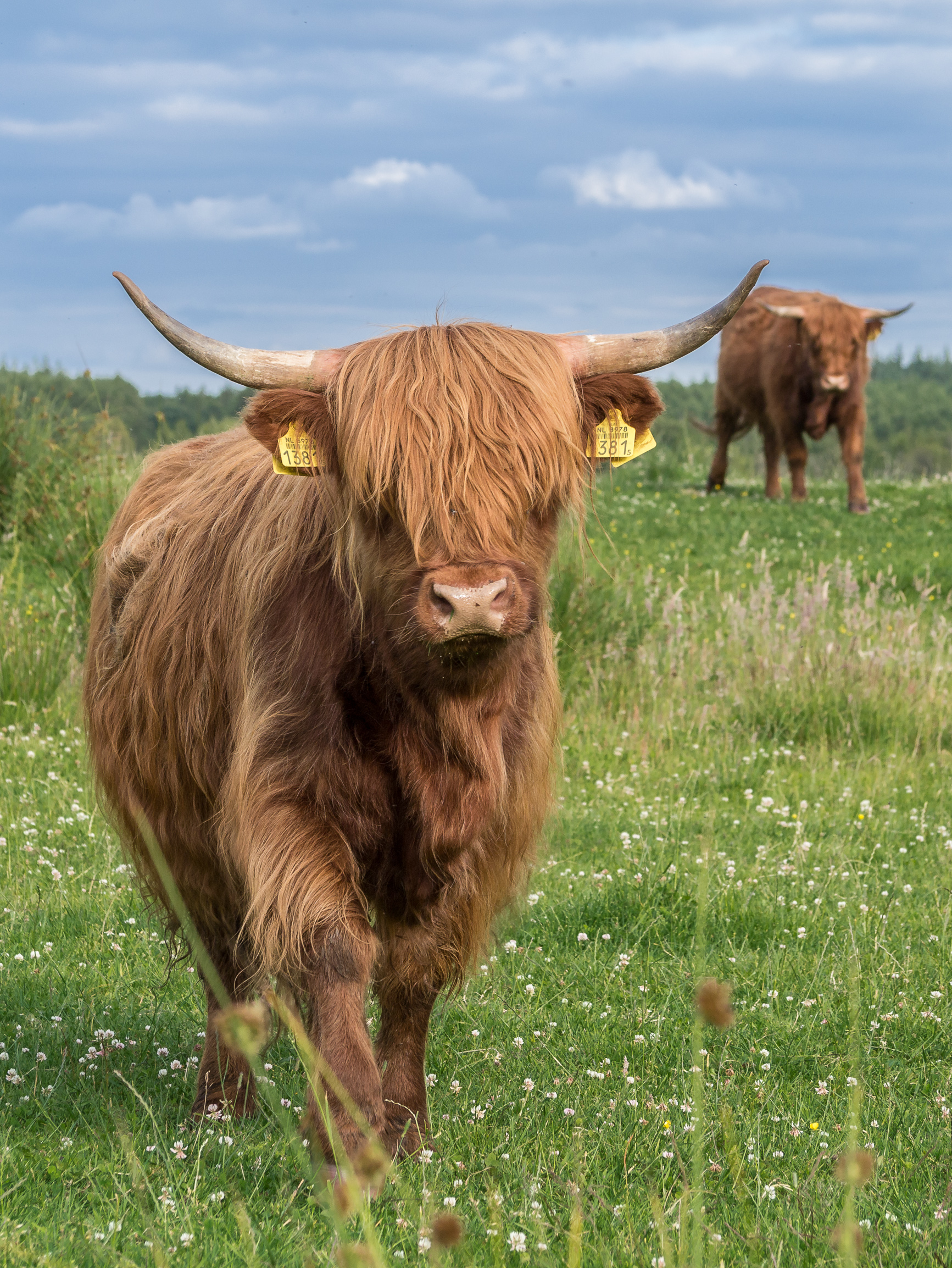 Highland cattle (Bos taurus)